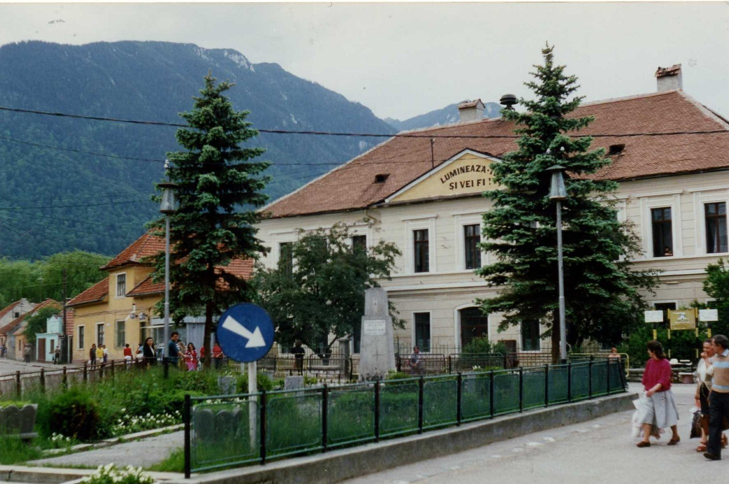 A small town at the foot of the northern slopes of the Carpathians.